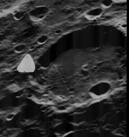 Partial oblique view of Buffon, on the moon.